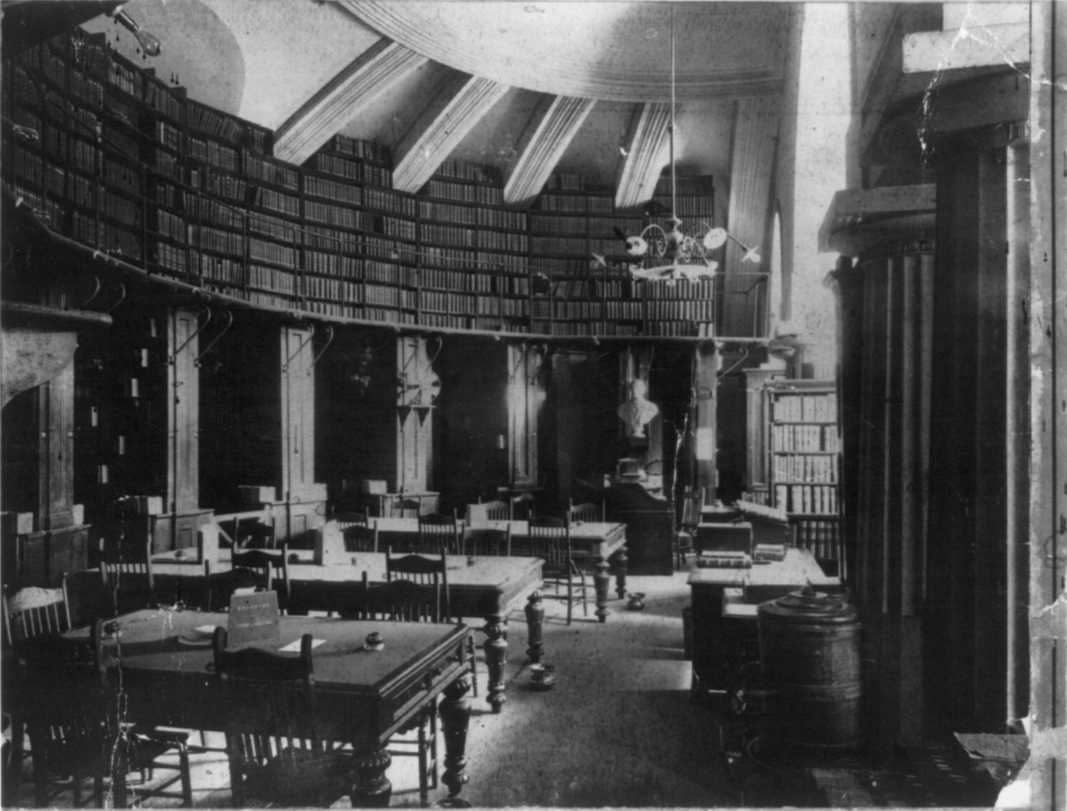 Photo shows the space that the Law Library occupied in the United States Capitol from 1860 to 1950. The space was the Supreme Court Chamber, 1859-60, and before that the Senate Chamber. Samuel Morse sent his first telegram from this room on May 24, 1844.